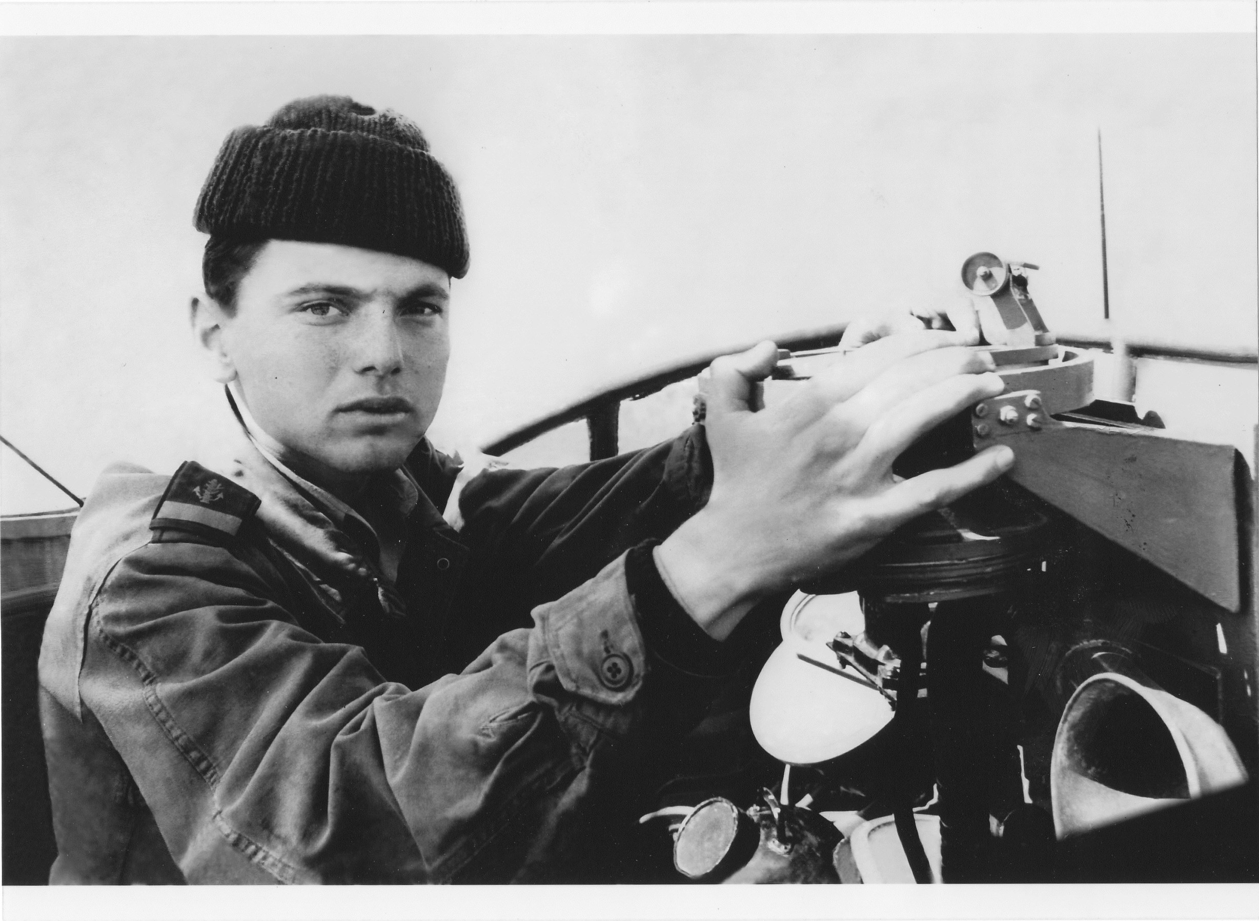 Arie Rona as SLt in the IN